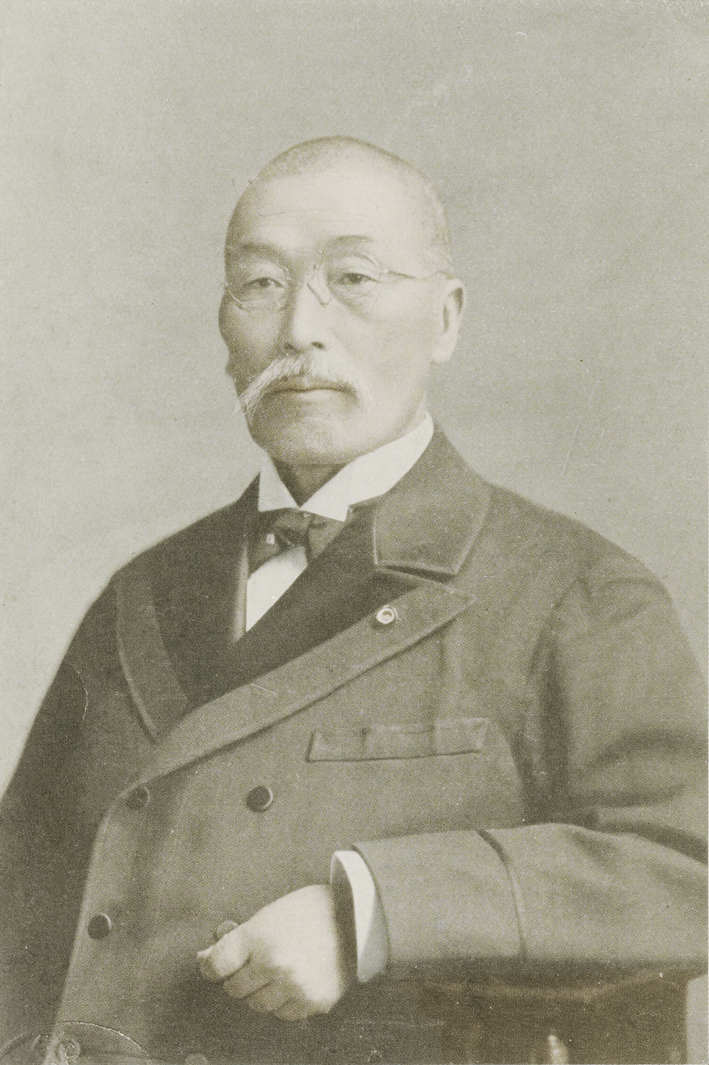 Portrait of Oe Taku (大江卓, 1847 – 1921)